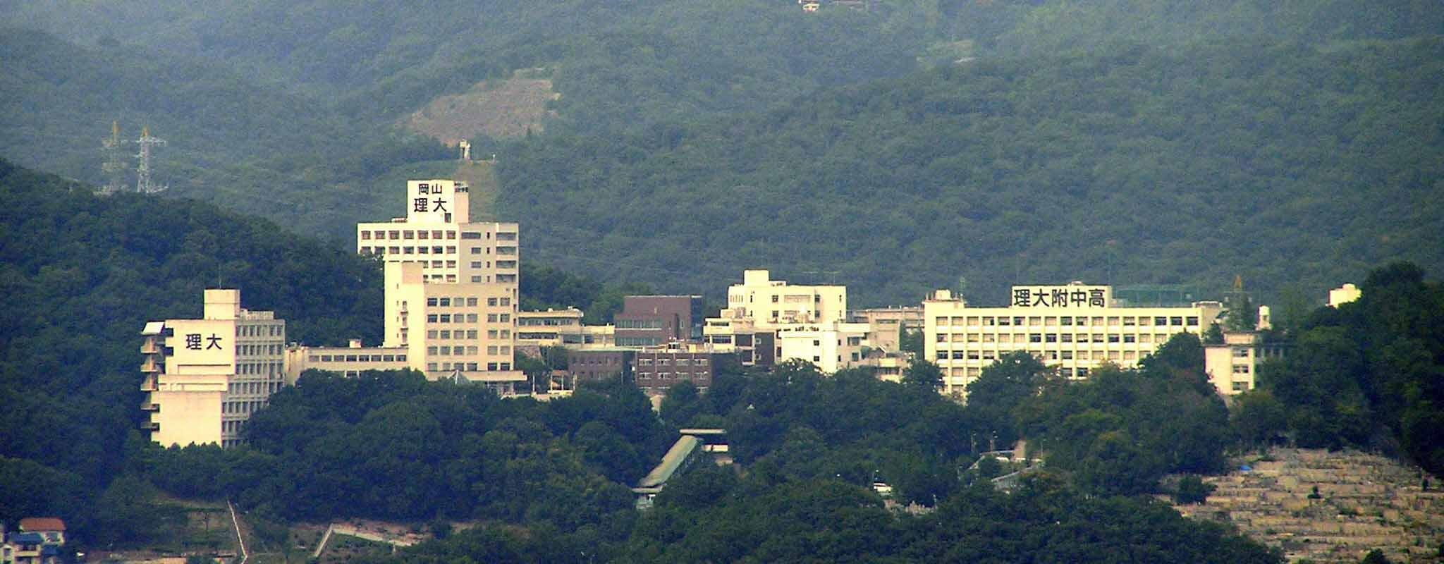 Okayama University of Science, and Okayama University of Science High School schoolhouse county